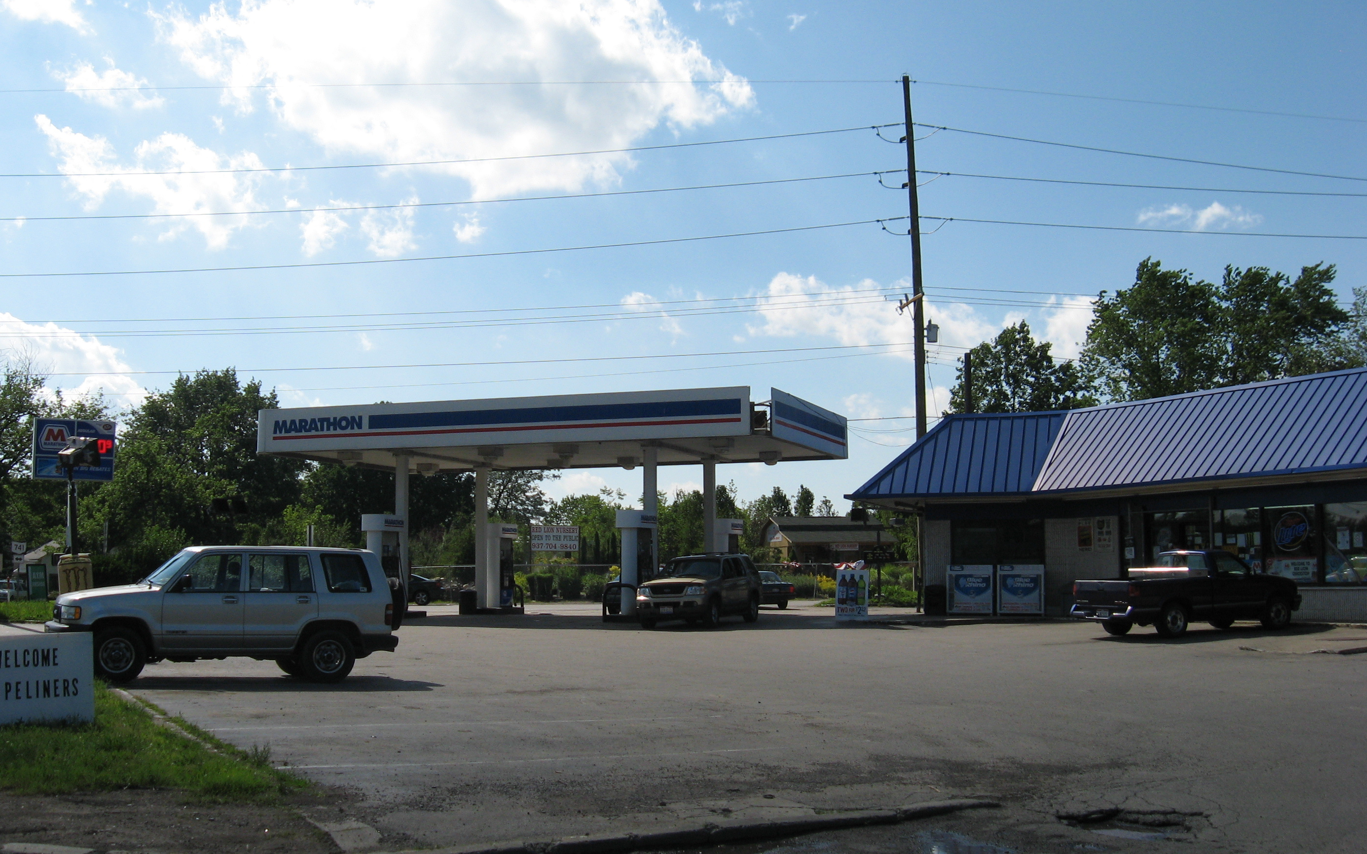 Marathon gas station (Red Lion, USA)